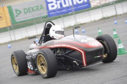 SC09 Prototype